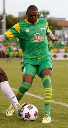 Anthony Wallace playing for the Tampa Bay Rowdies